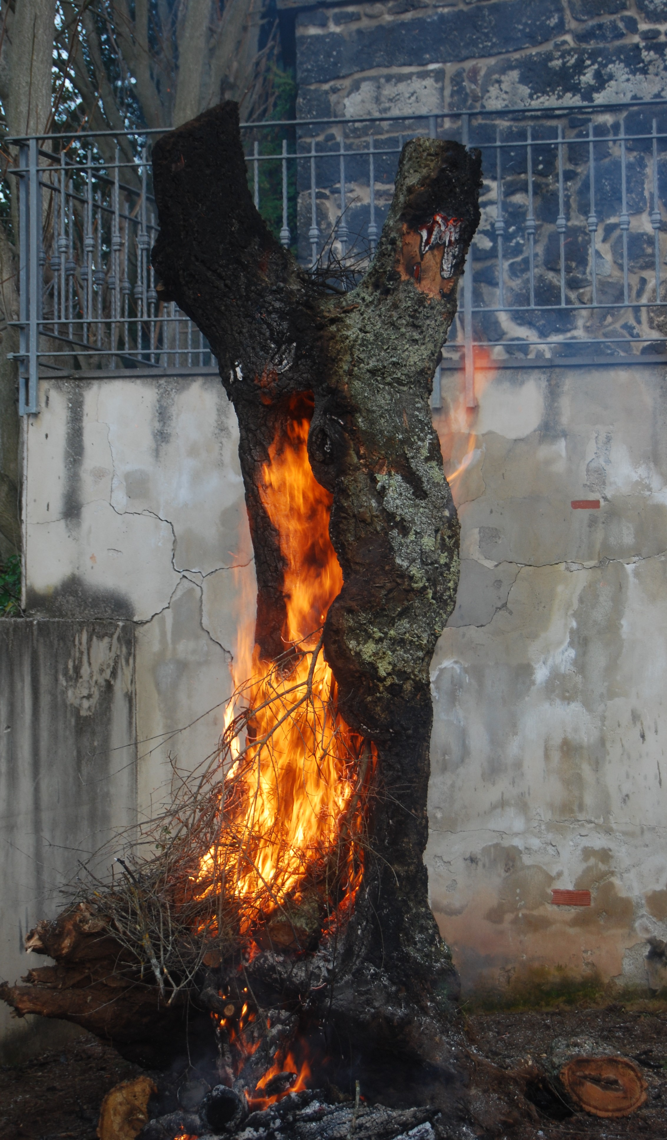 Falò